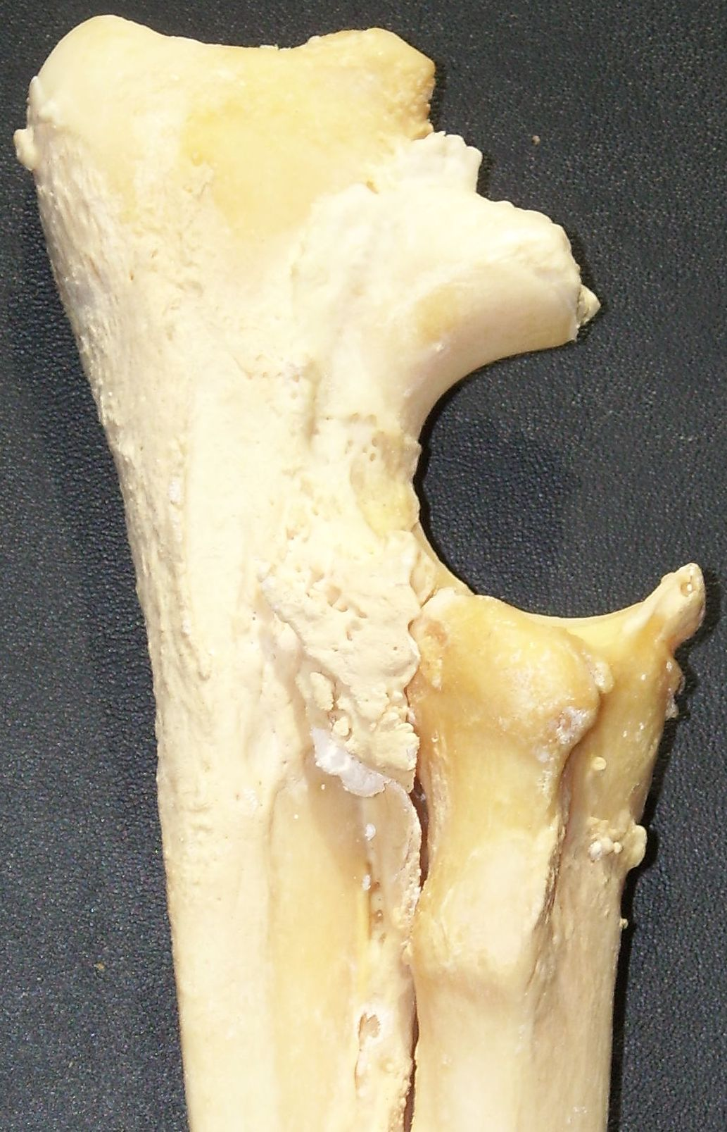 upper part of radius and ulna of a dog with elbow dysplasia grade 3